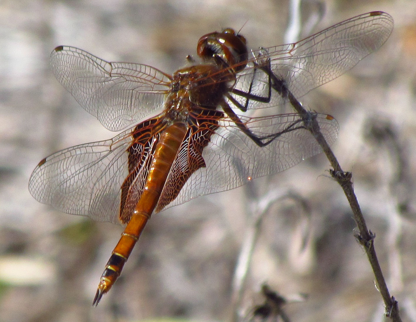 Red Saddlebags (Tramea onusta), female, Oscar Scherer Park, Florida